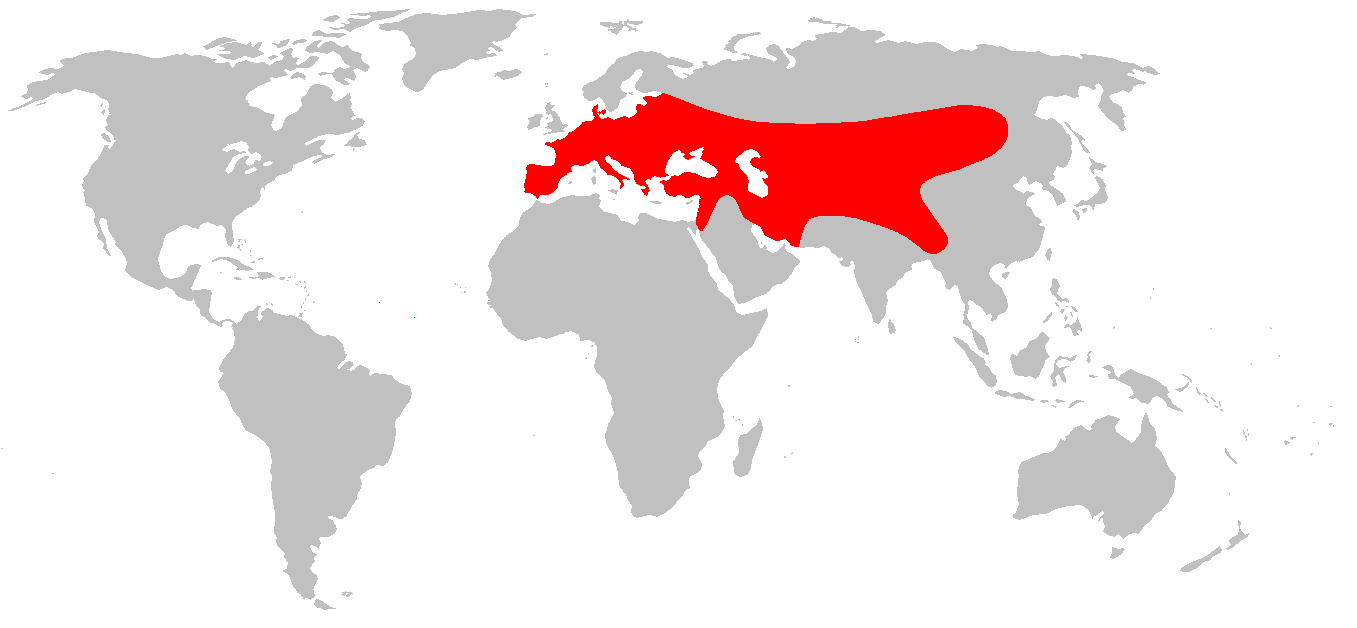 Distribution of beech marten (Martes foina')